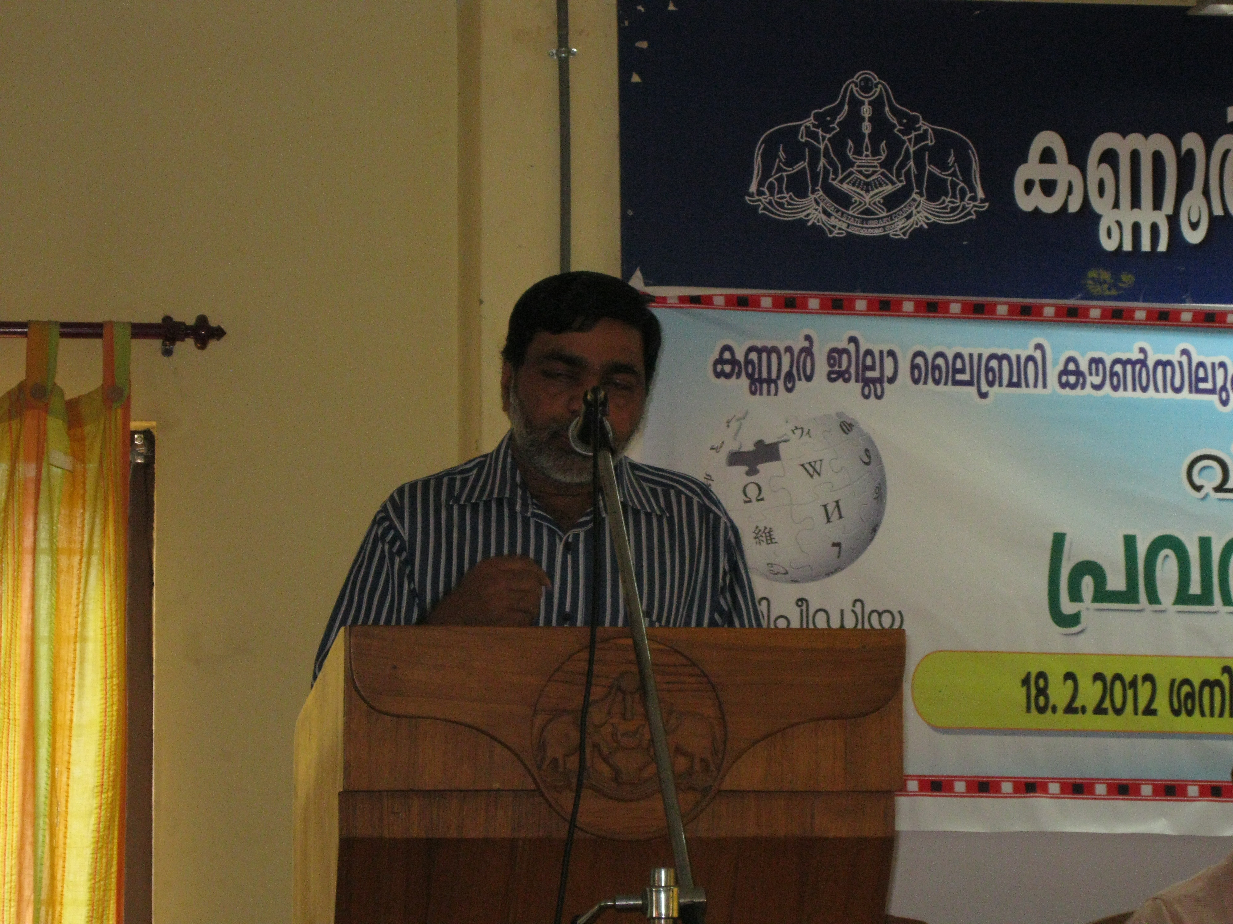 pro vice chancellor of Kannur university , inauguration wiki meet